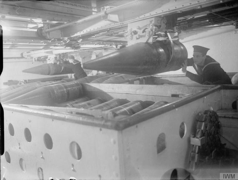 IWM caption : ON BOARD THE BATTLESHIP HMS NELSON AT SEA. 1940. Two 16" shells on their way from the shell bins to the tubes. A grab comes down and lifts the shell on to a tray, then to tube, etc.